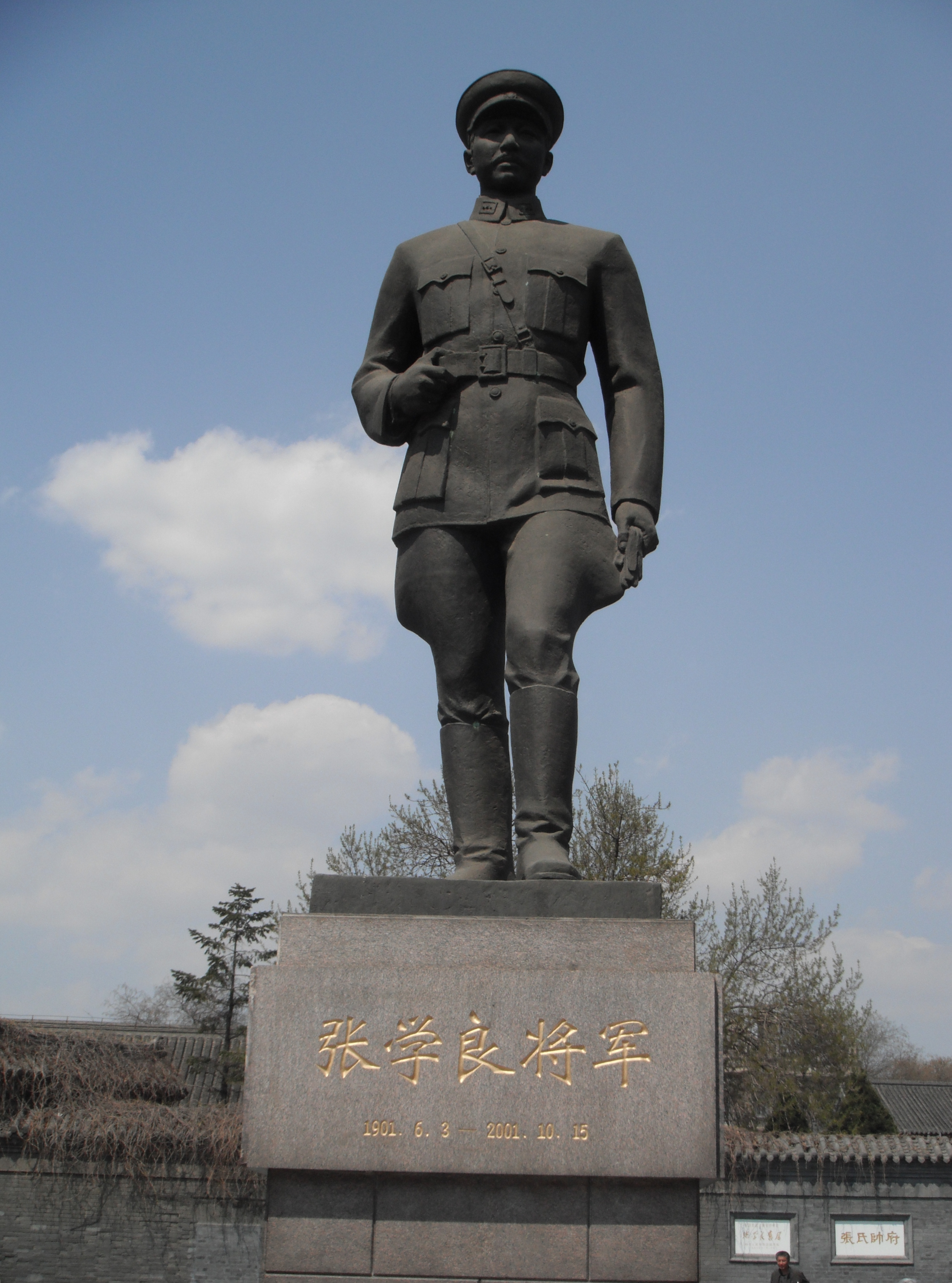 general xueliang zhang